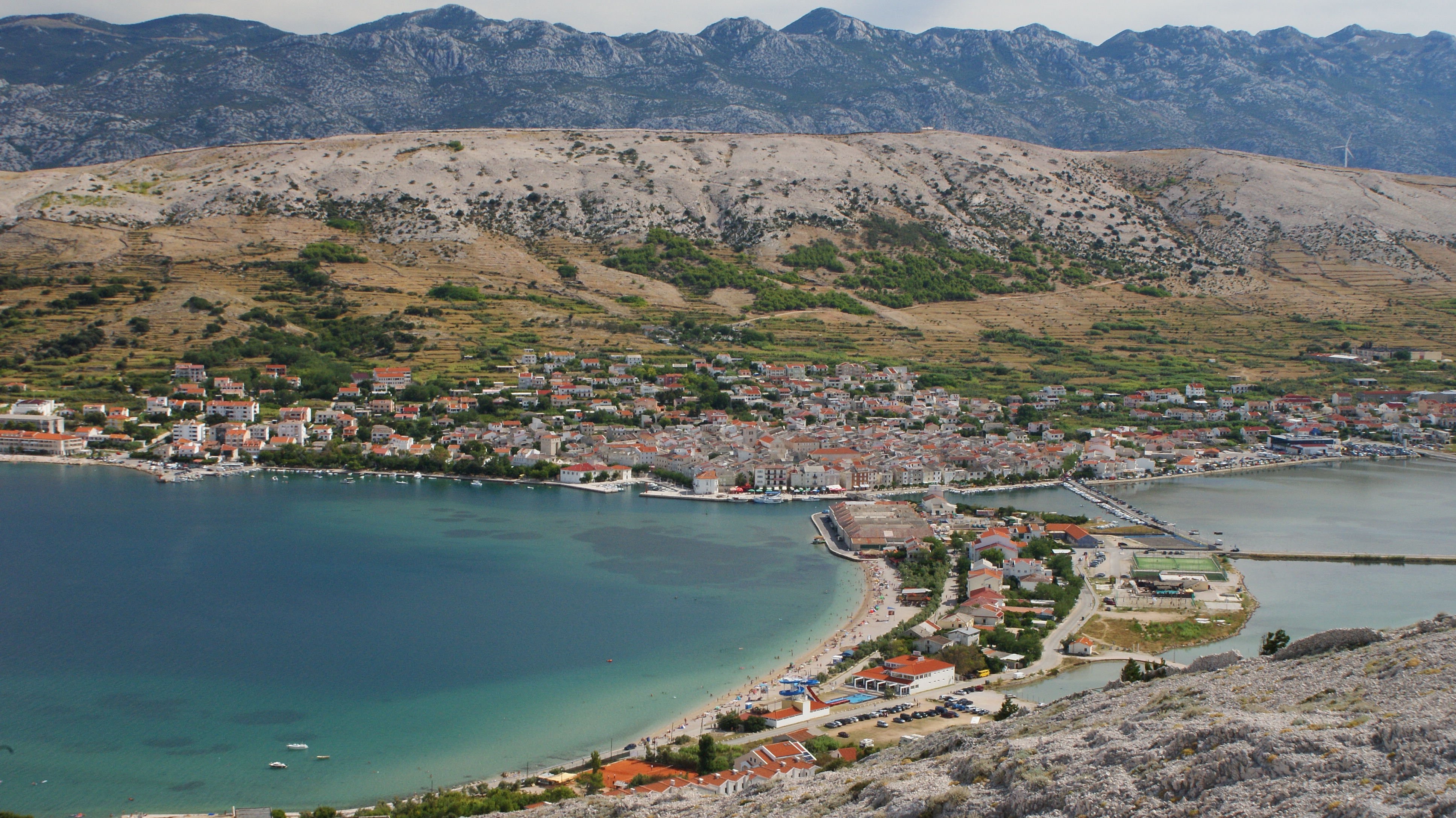 Pag on the island Pag